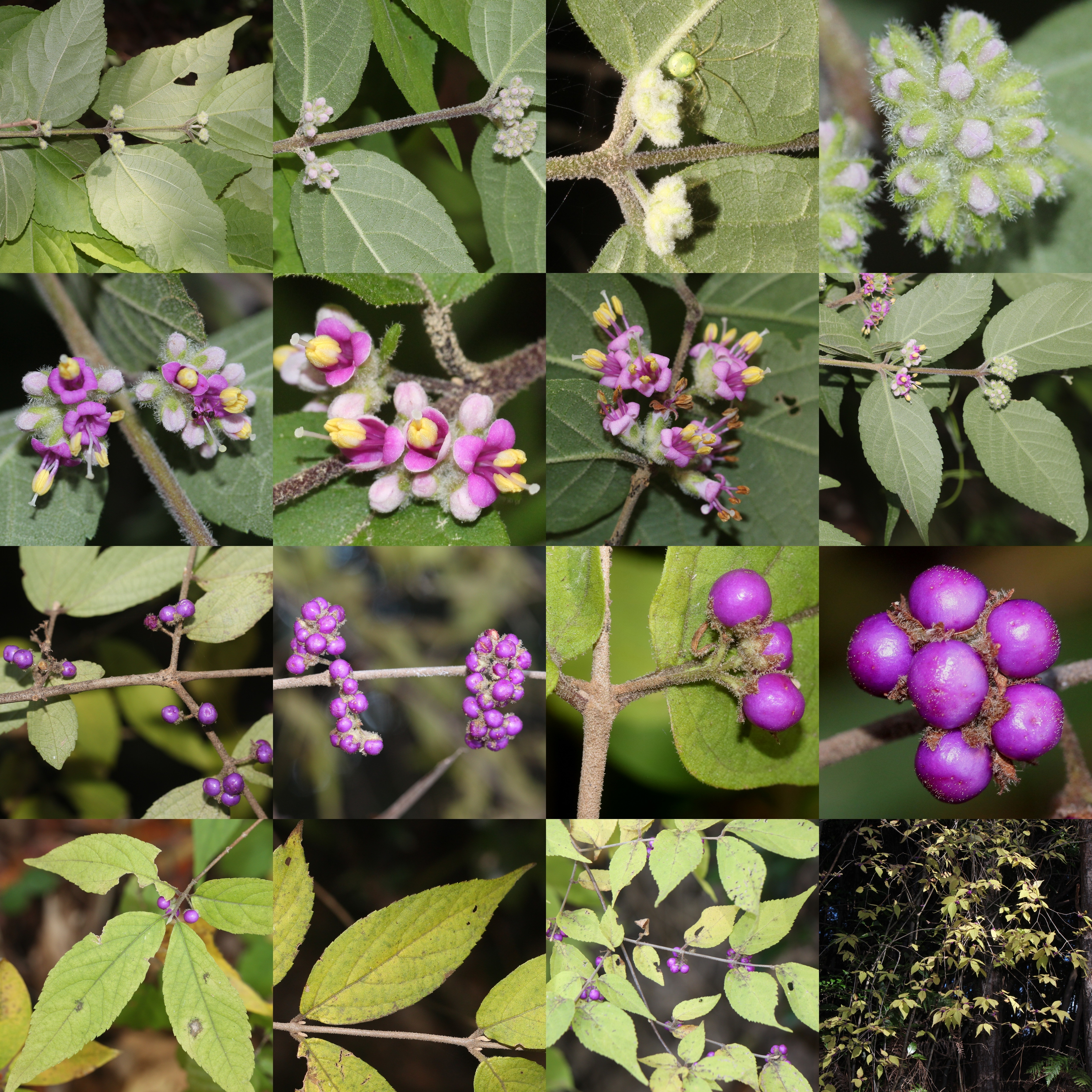 Montage of Callicarpa mollis in Japan.